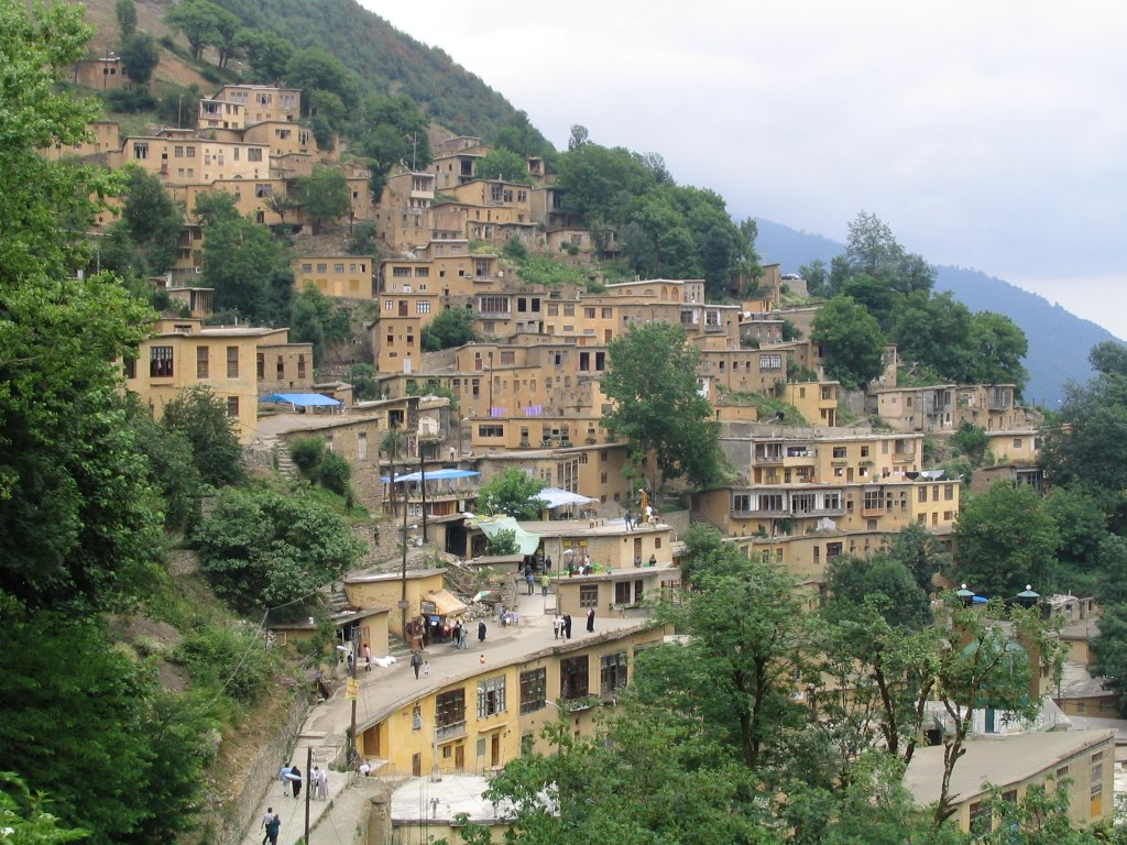 Full size image of Masouleh Village